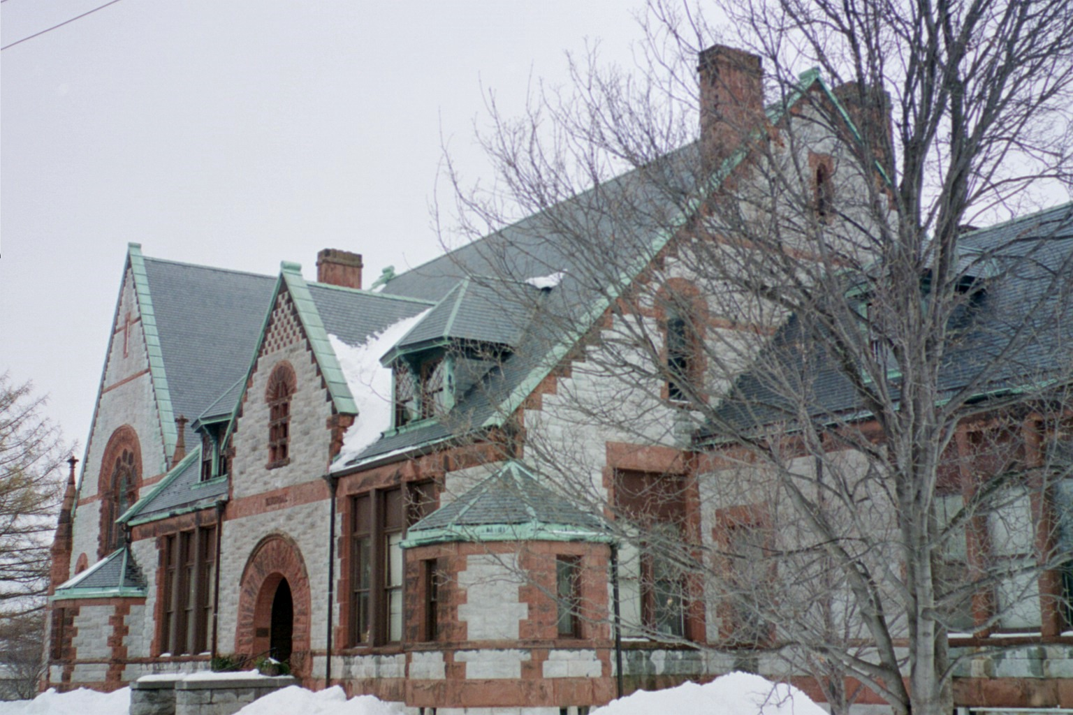 Willard Chapel — Romanesque Revival style facade. Located in Auburn, west-central New York state.